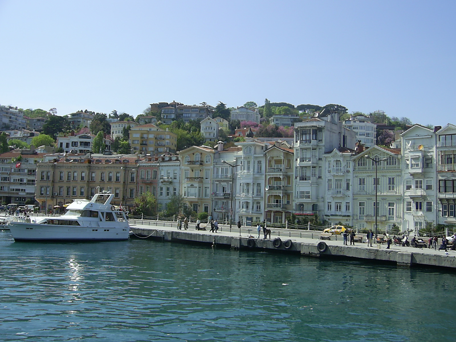 Arnavutköy quarter of Istanbul on the Bosphorus.